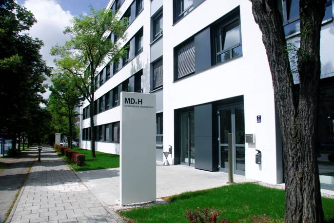 building of MD.H munich